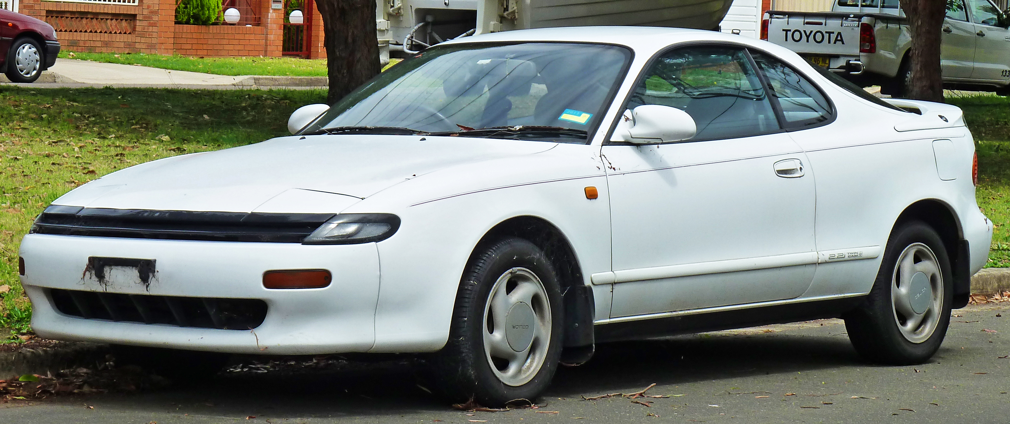 1989–1991 Toyota Celica (ST184R) SX liftback. Photographed in Sans Souci, New South Wales, Australia.